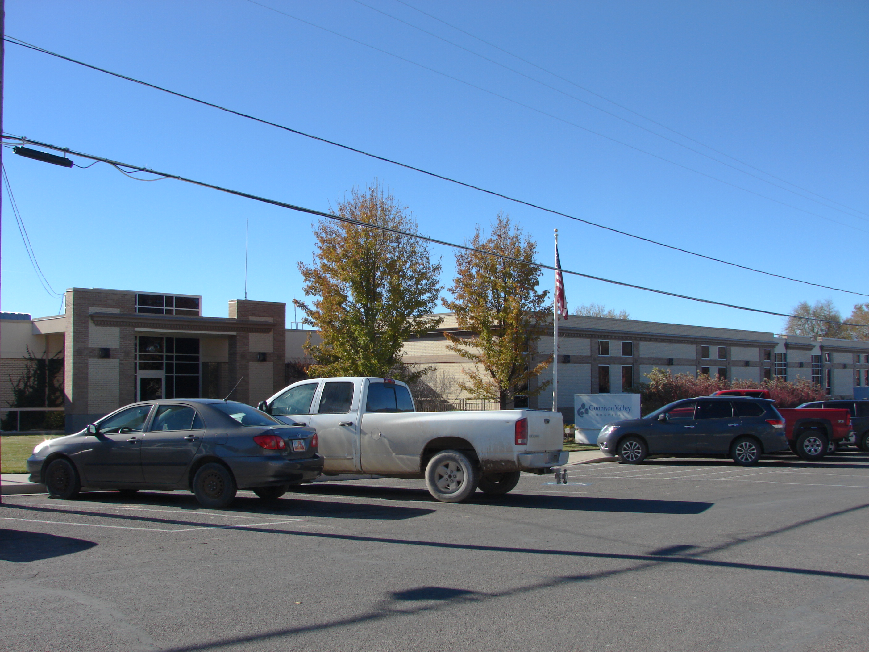 Southwest at the Gunnison Valley Hospital in Gunnison, Utah, November 2026